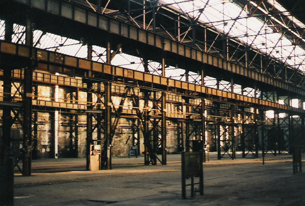 Interior of the former railyard in Trier-West, Germany.